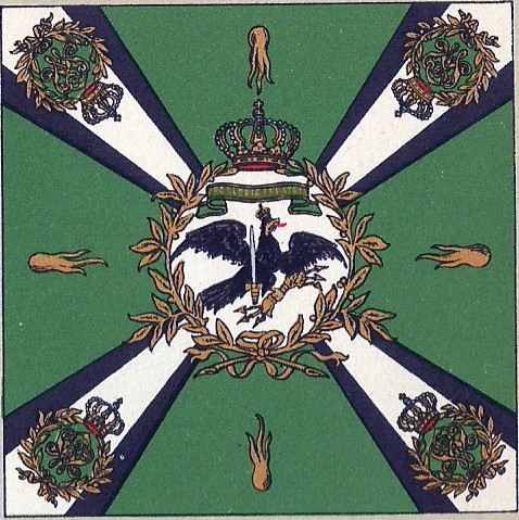 Flag of the Jäger-Bataillone